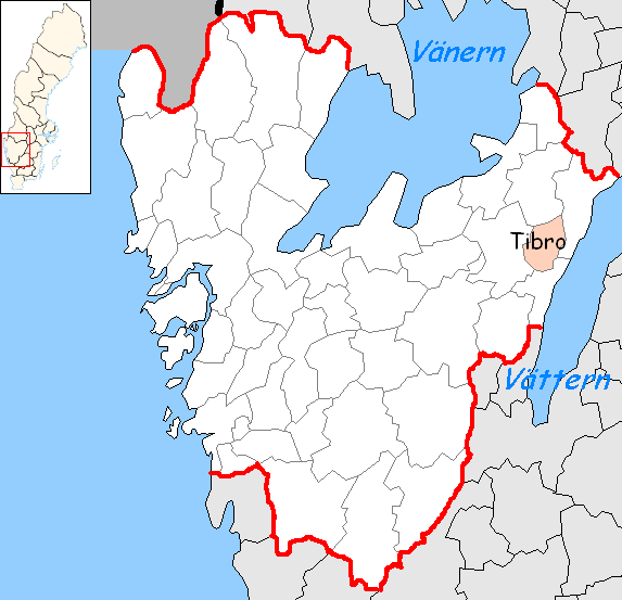 Tibro Municipality in Västra Götaland County Designed by me. Mere outlines are a PD source from